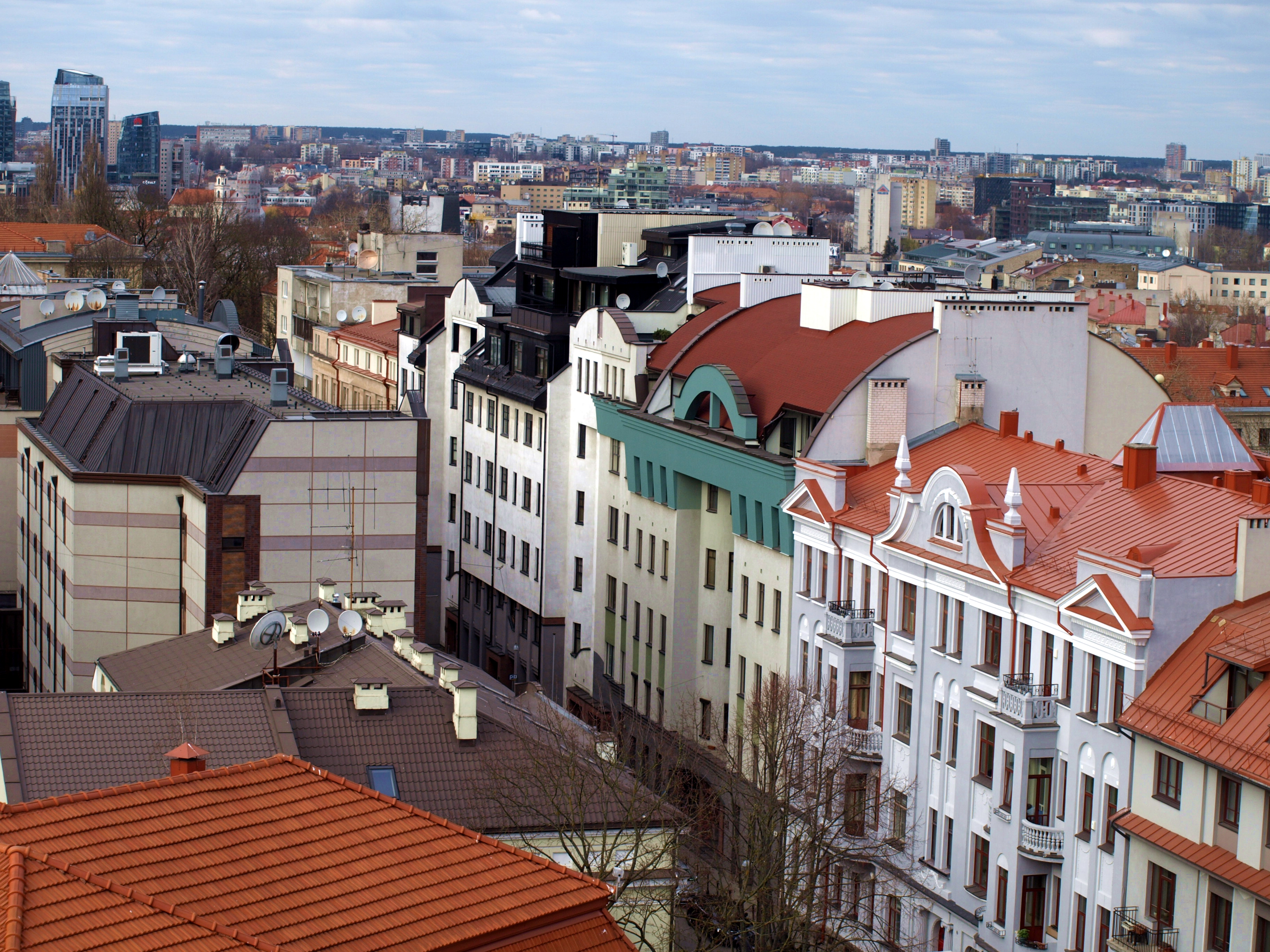 Residential buildings in Naujamiestis, Vilnius